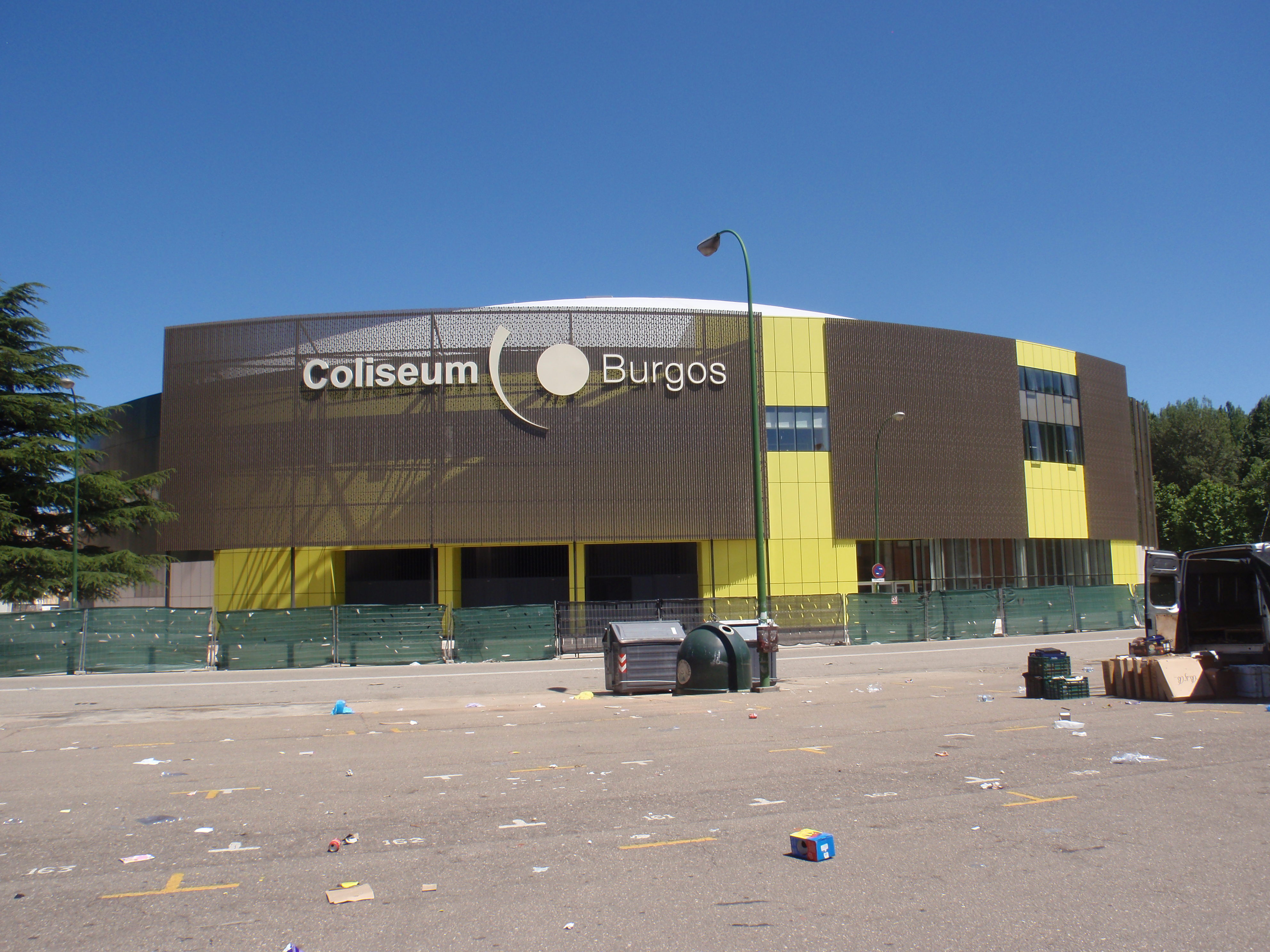 Coliseum de Burgos. Opened in 1967, was reformed and covered in 2015. It is used mainly for bullfighting.